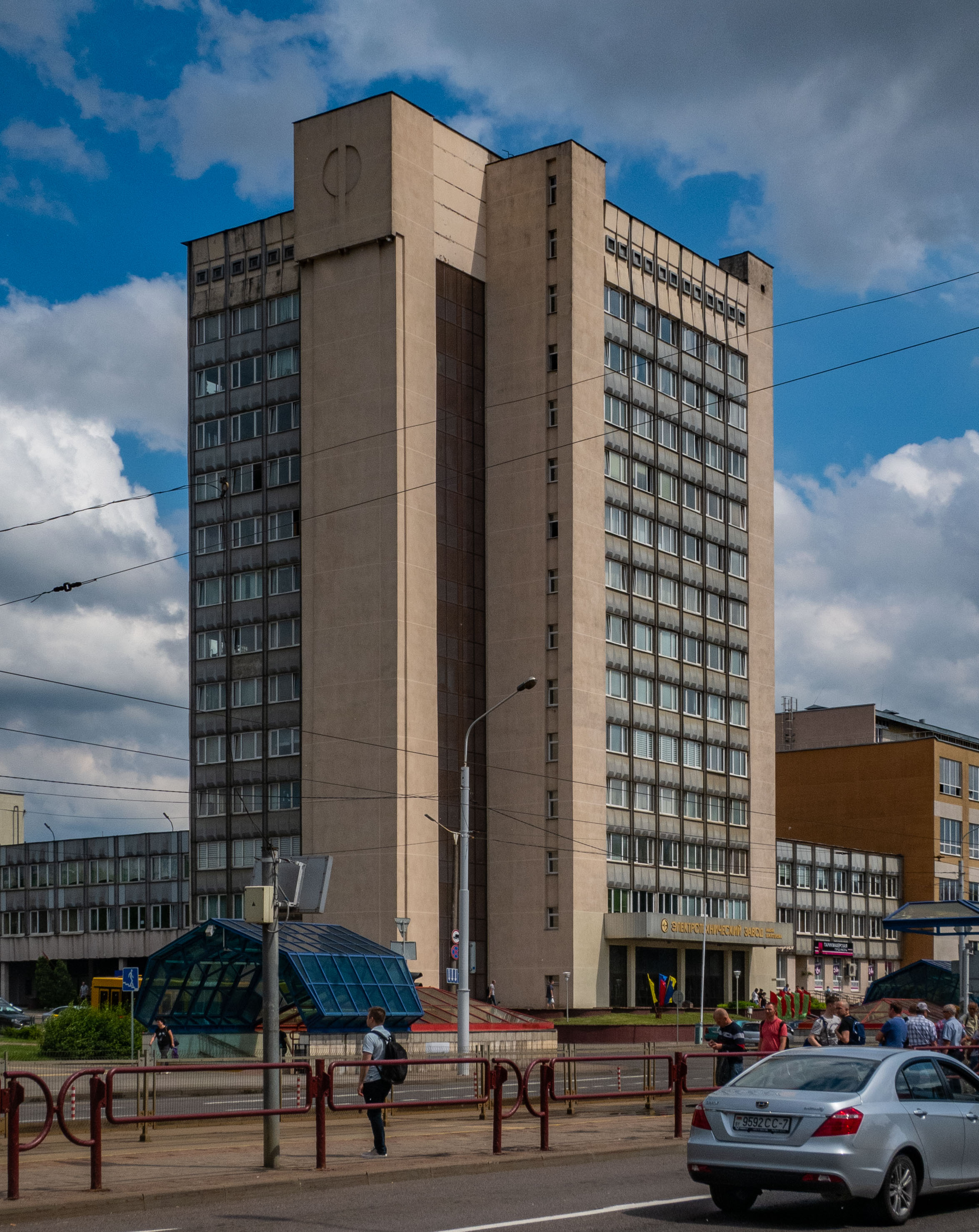 Electrotechnical factory (METZ). Minsk, Belarus